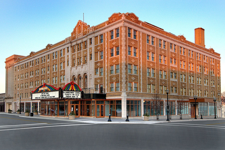 This is the Genesee Theatre in downtown Waukegan, Illinois